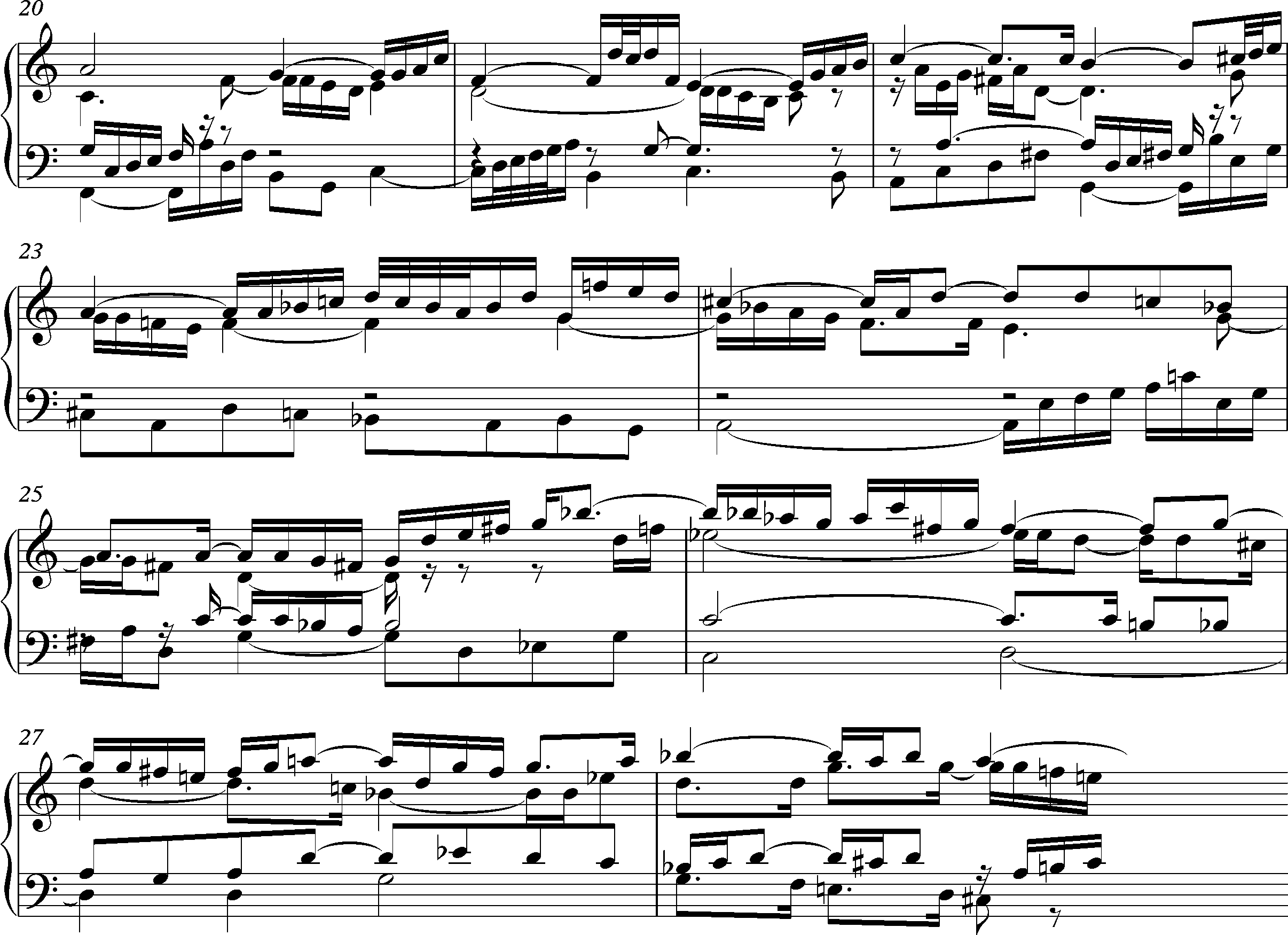 Prelude in C from Well-Tempered Clavier Book 2 bars 20-28